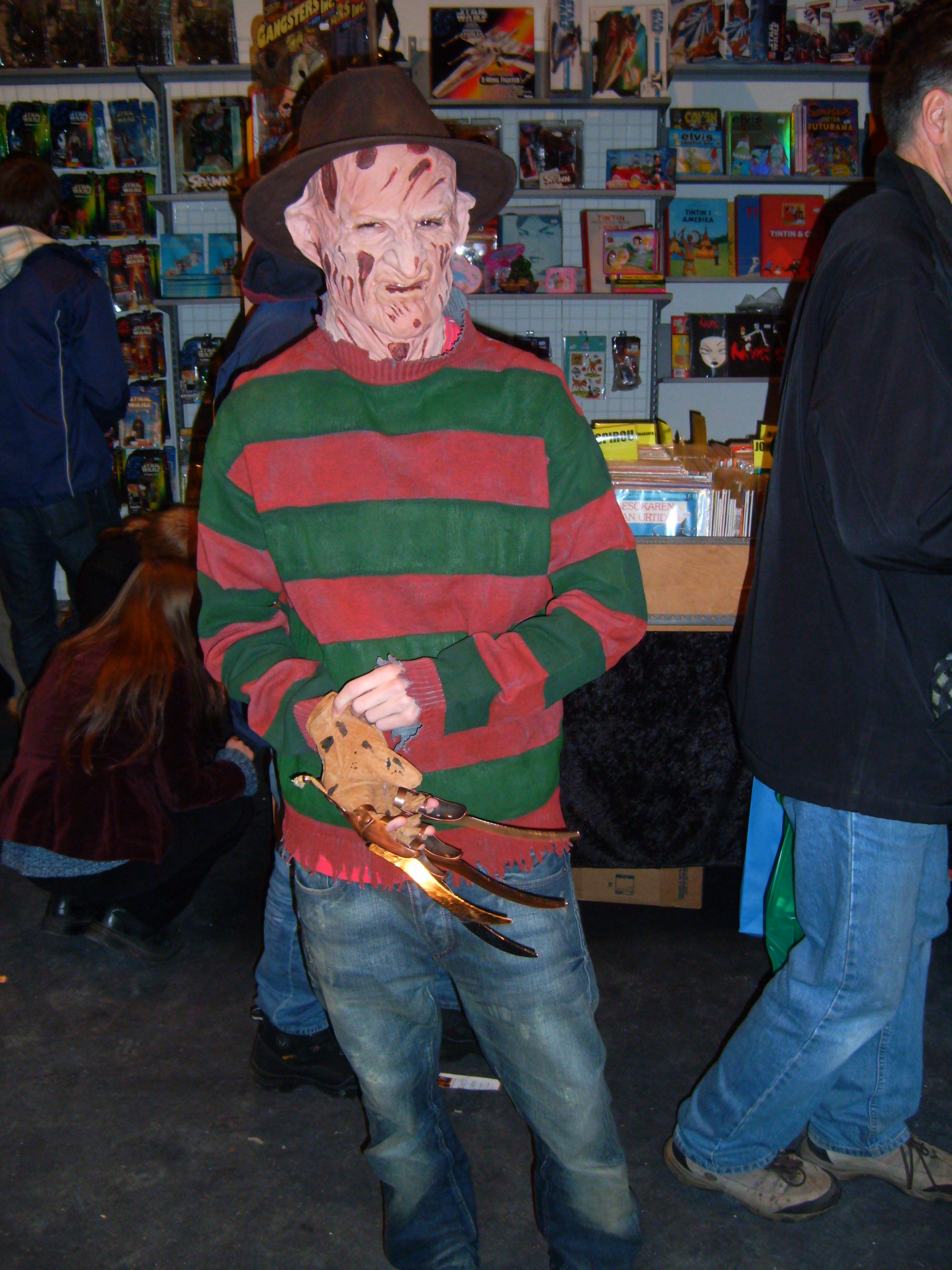 A person dressed as Freddy Krueger.